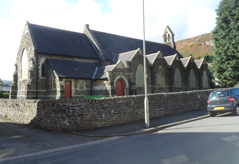 St Anne's Church, Ynyshir. Viewed from Station Road. The tower at the far end has 2 bells.